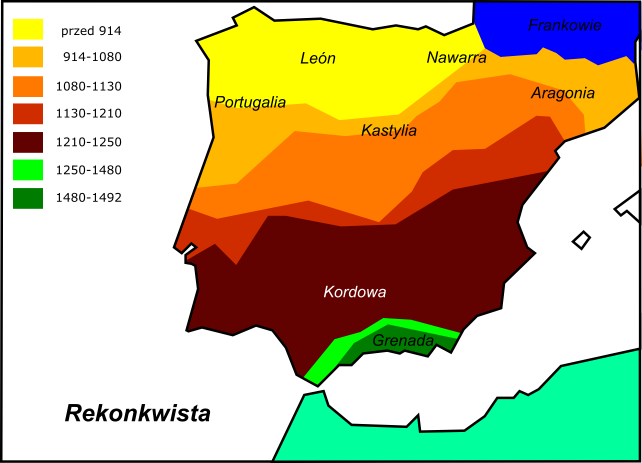 Map of development of the Reconquista on the Iberian Peninsula from year 914 until 1492